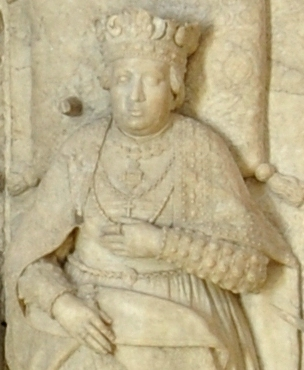 Royal Mausoleum in St. Vitus Cathedral at Prague Castle.